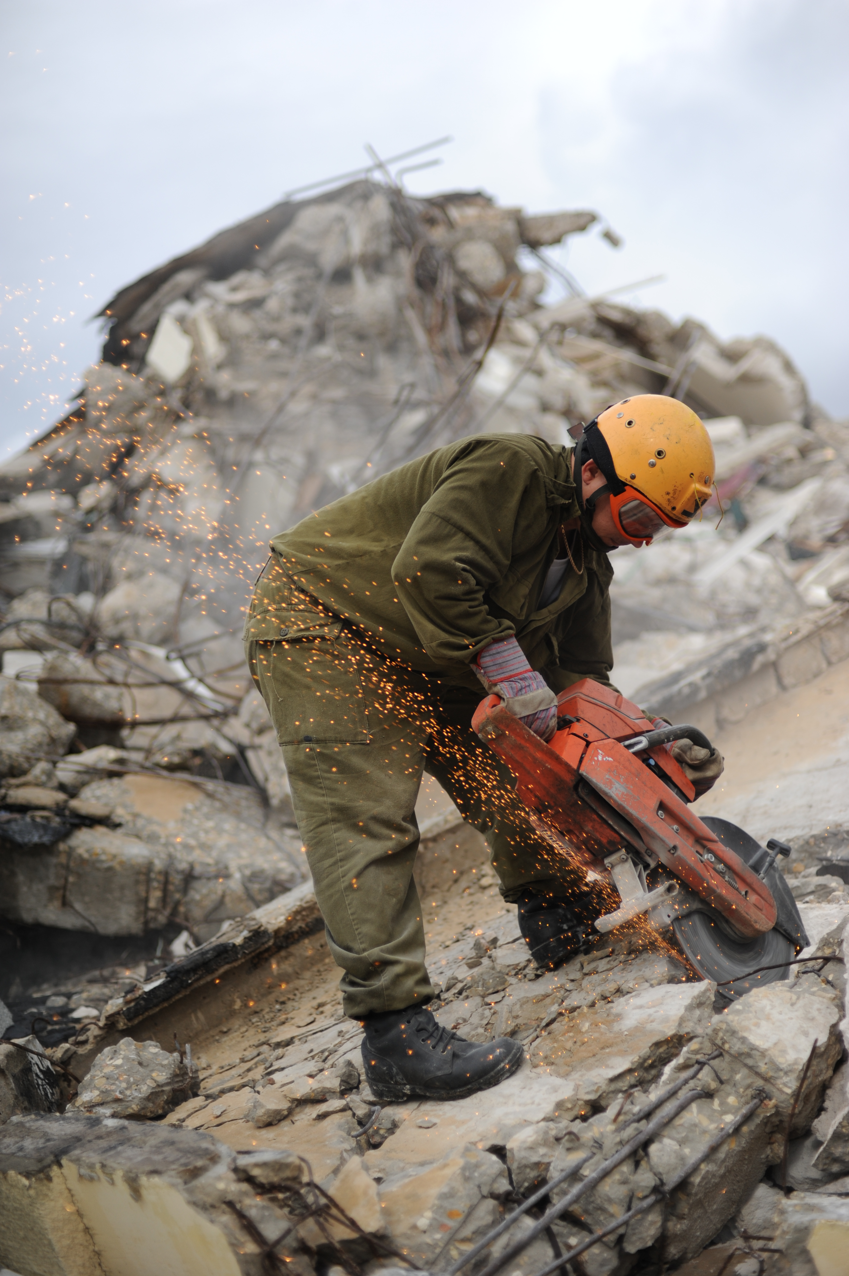 December 4, 2012 The Home Front Command's Search and Rescue Unit conducted an exercise in cooperation with police and medical teams. The goal of the exercise was to simulate real life disaster situations such as rescuing people from under the rubble. Photo by Staff Sgt. Yuval Haker, IDF Spokesperson's Unit For more from the IDF